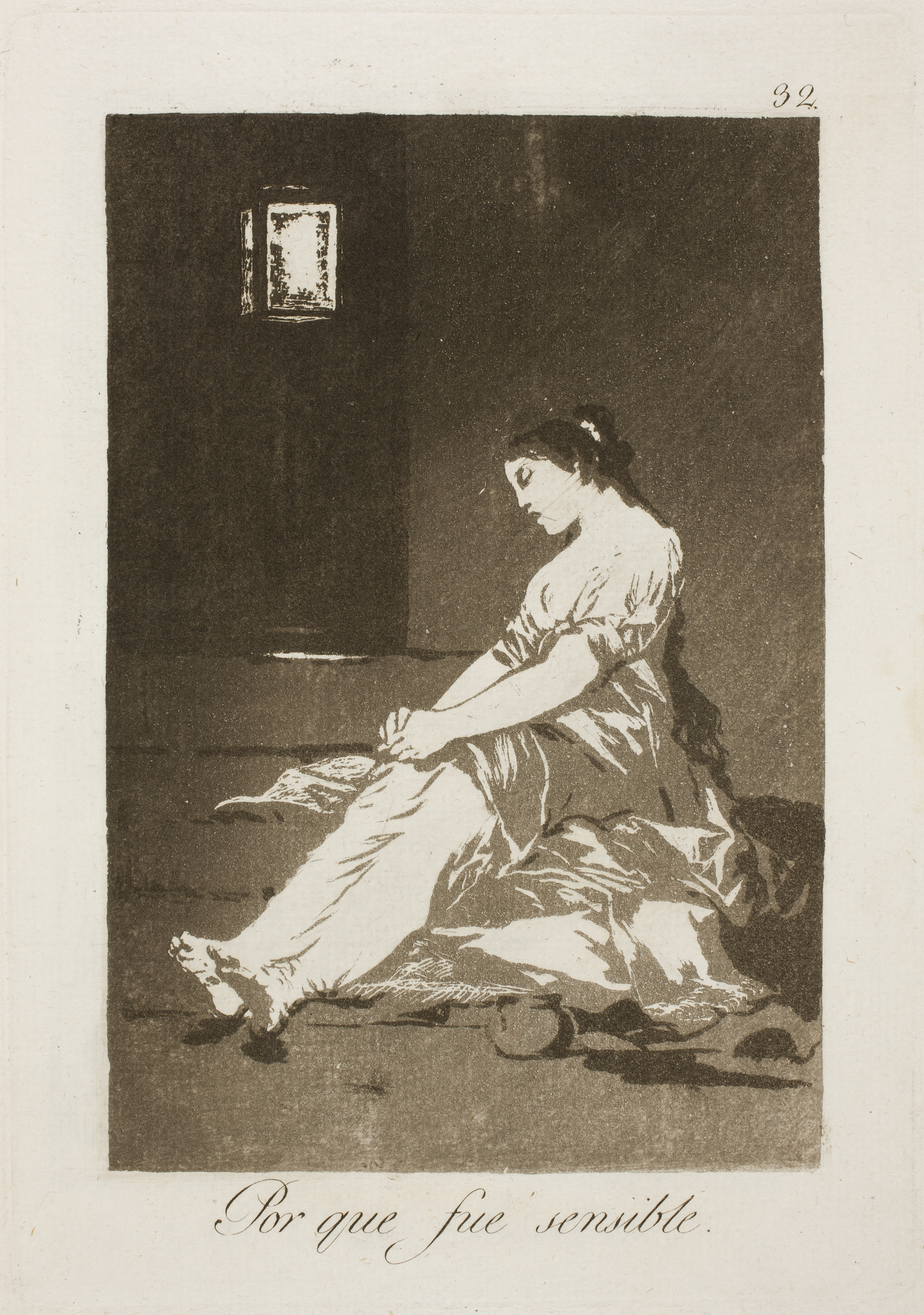 This print is work No. 32 of the "Caprichos" series (1st edition, Madrid, 1799).